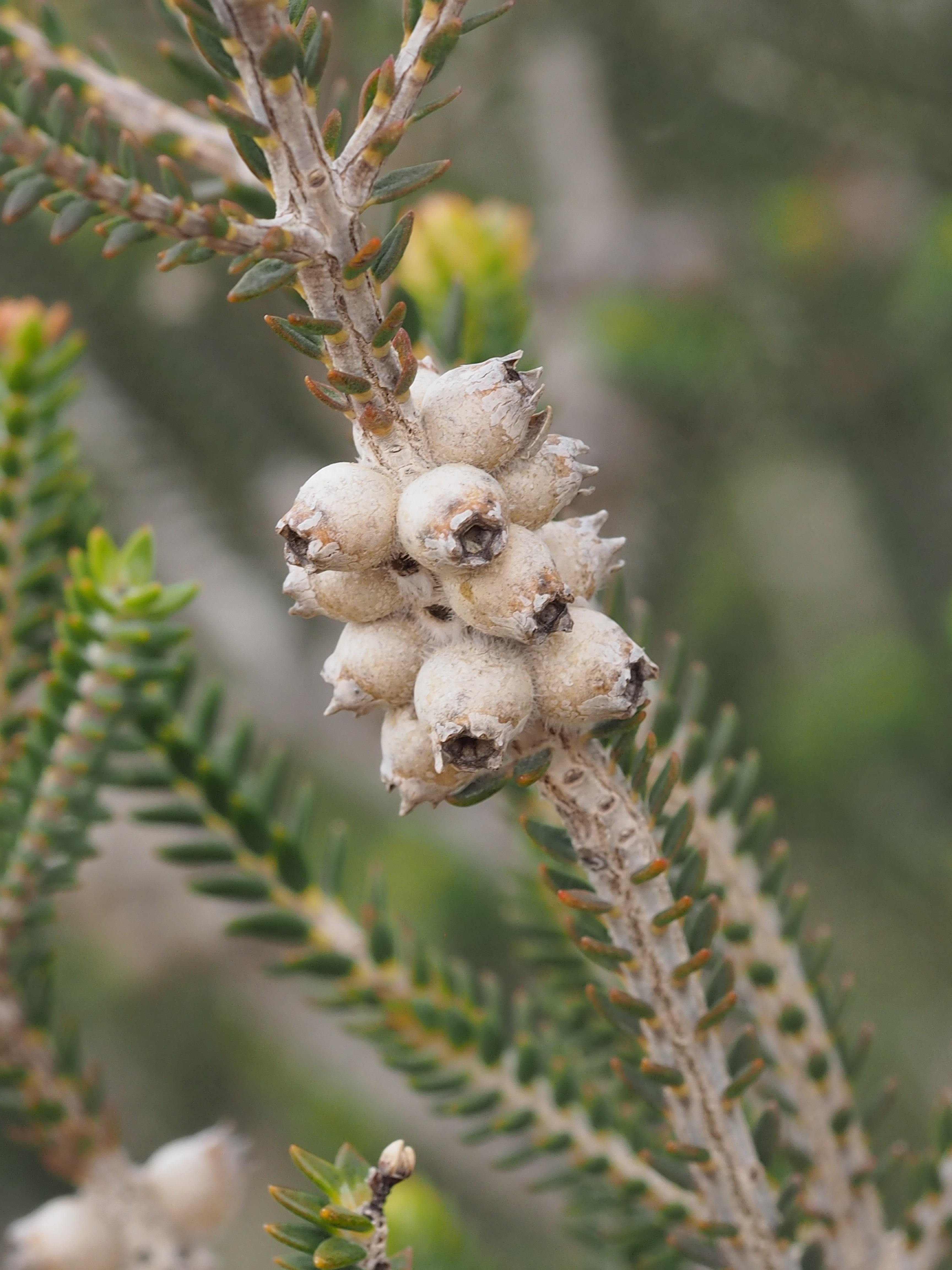 Fruit of Melaleuca linguiformis near Norwood Road in the Wittenoom Hills, northeast of Esperance, W.A.